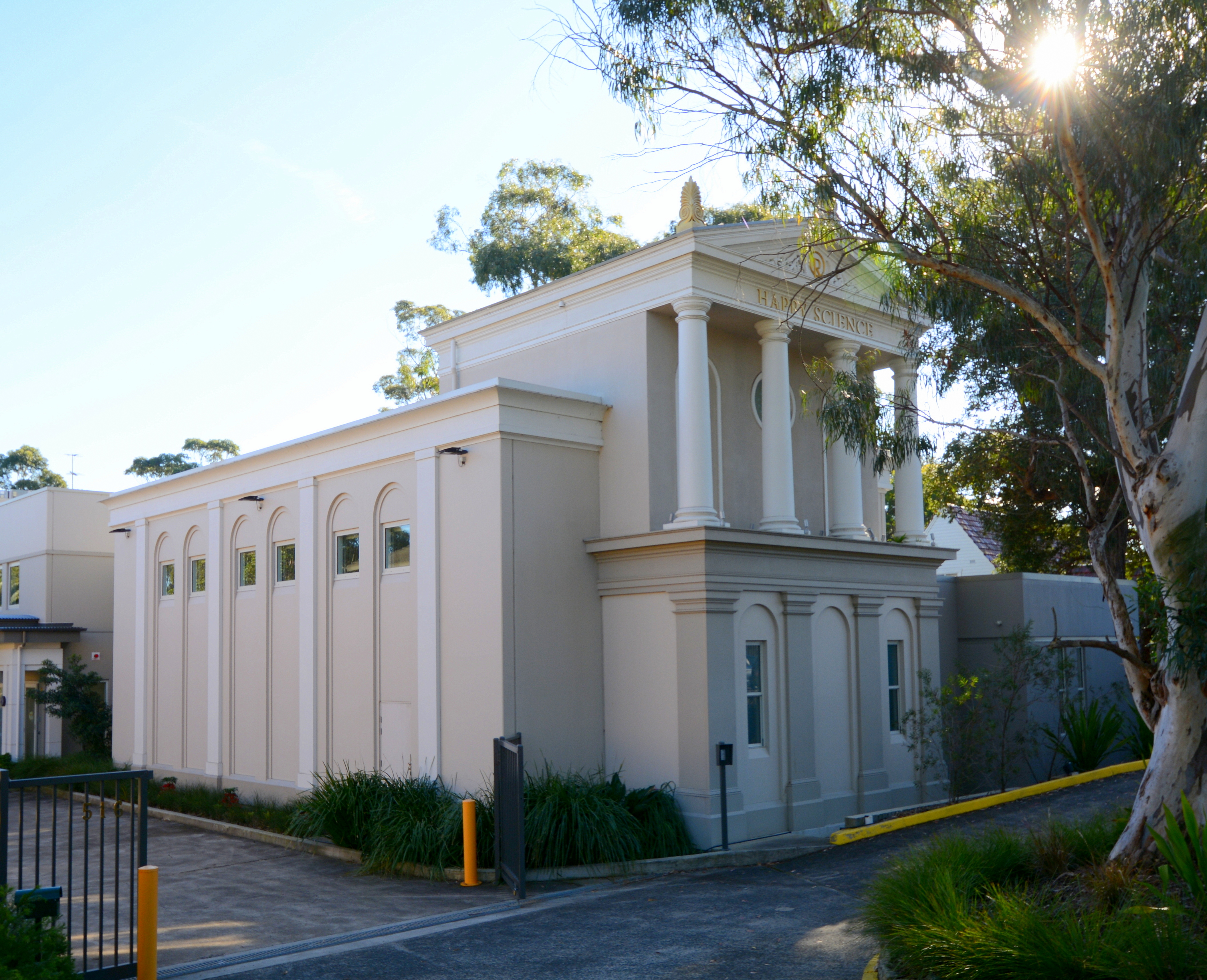 Happy Science, Pacific Highway, Lane Cove, Sydney